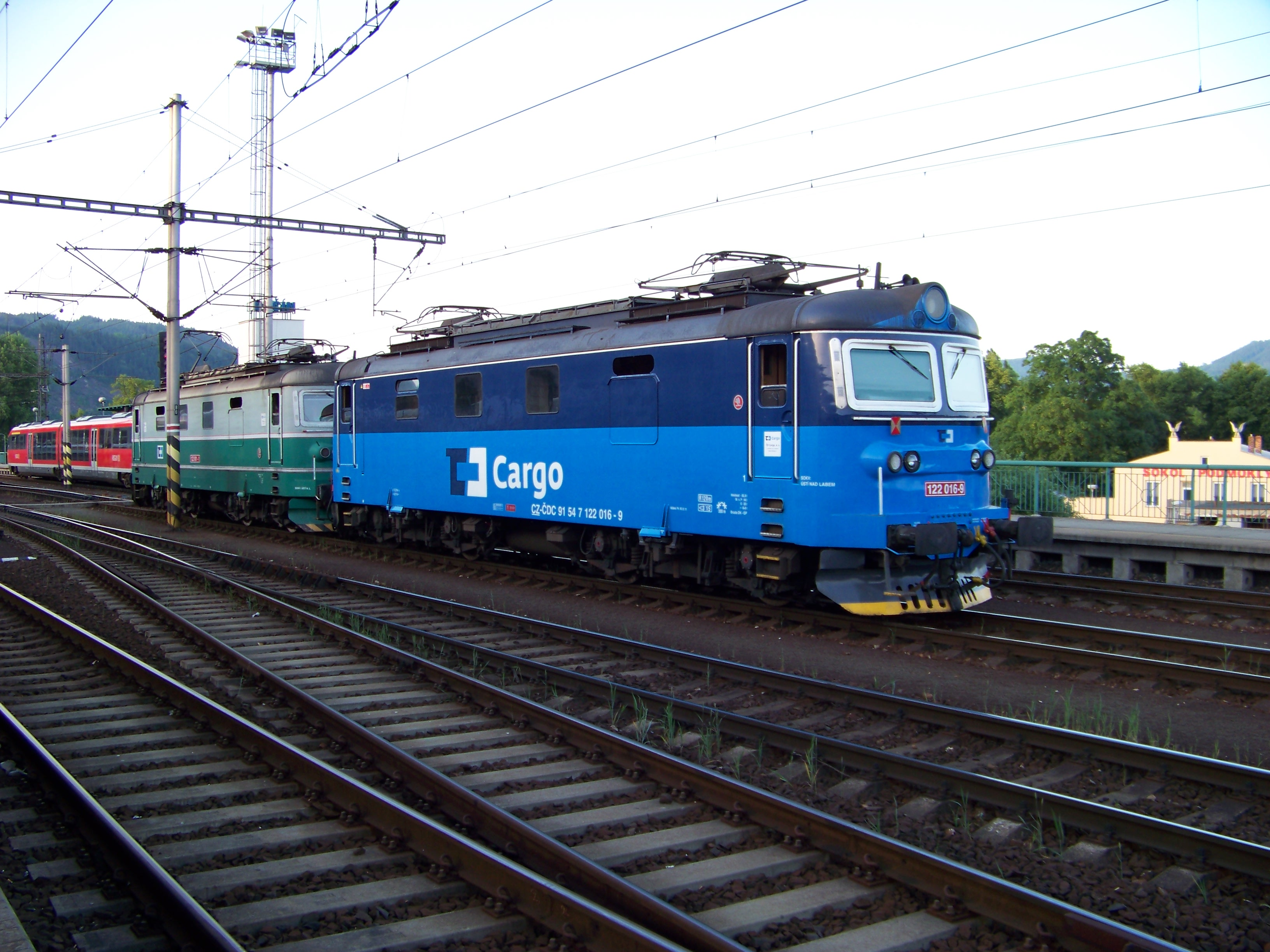 Děčín-Podmokly, Děčín District, Ústí nad Labem Region, Czech Republic. Děčín hlavní nádraží, a train.